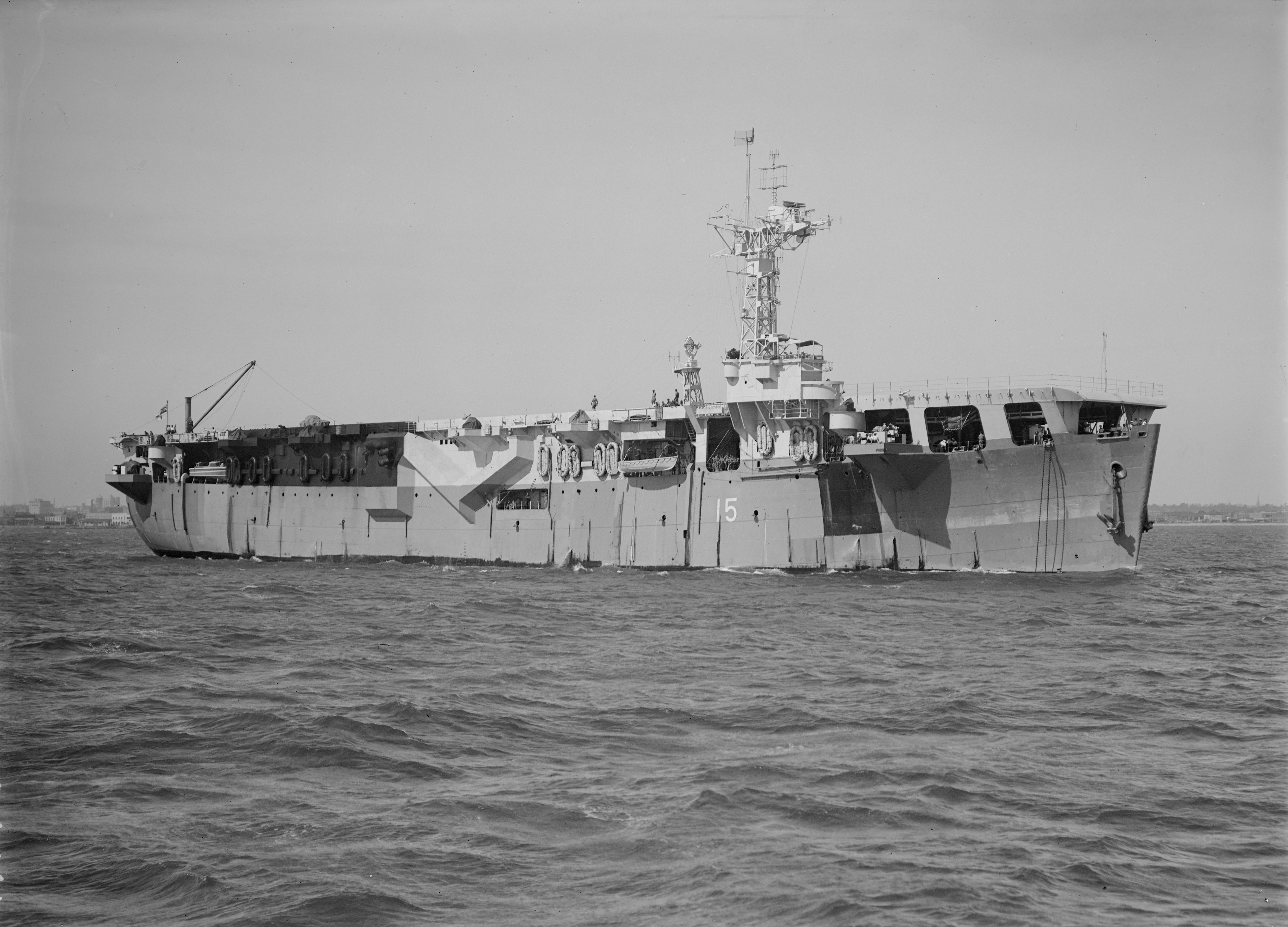 Nairana-class escort carrier HMS Vindex